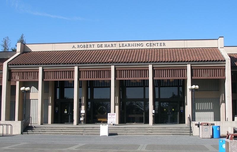 The A. Robert De Hart Learning Center (essentially a college library) at De Anza College in Cupertino, California.